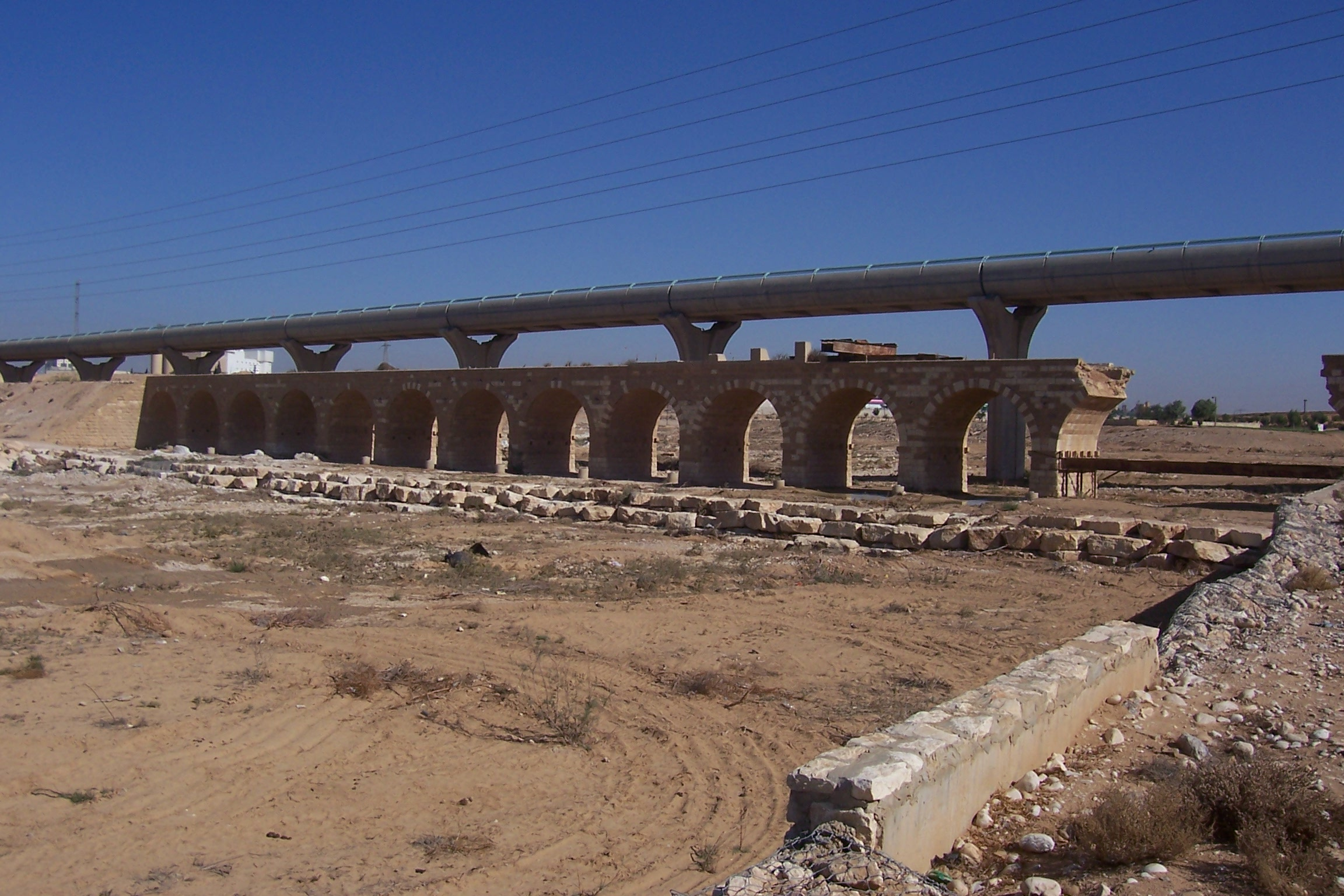 Geography of Israel